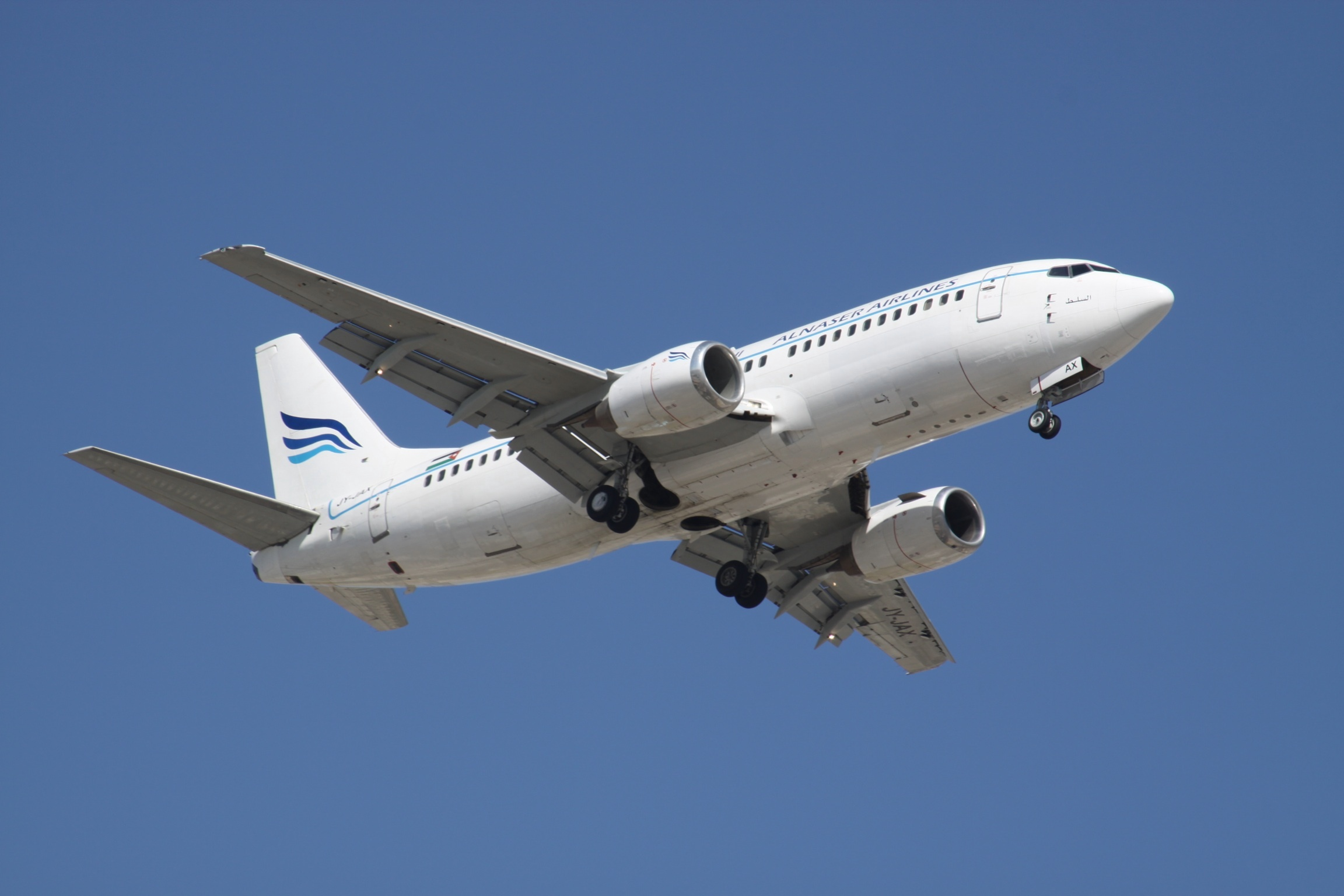 At Dubai